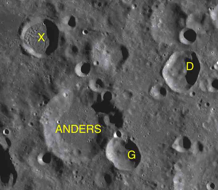 Part of the chart LAC-121 used for the presentation